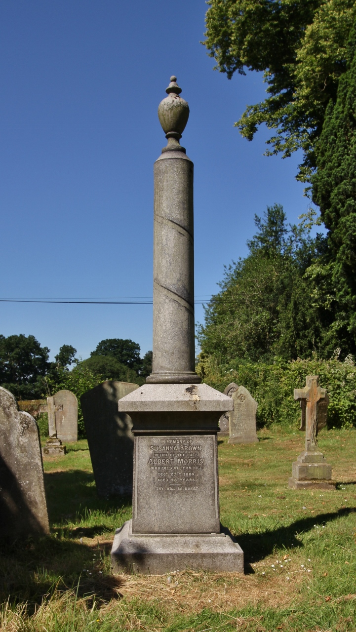 Monument in the parish churchyard of St Nicholas, Kenilworth, Warwickshire, seen from the east. It was erected in memory of Albert Morris, who was killed in the Shipton-on-Cherwell train crash in Oxfordshire on Christmas Eve 1874. The inscription on this side commemorates his widow, Susanna Brown, who died on 27 December 1884.